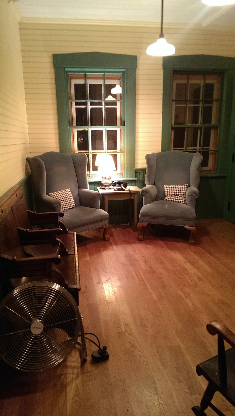 Women's waiting area at the Contoocook Railroad Depot, restored to approximately 1910 condition, in November 2013